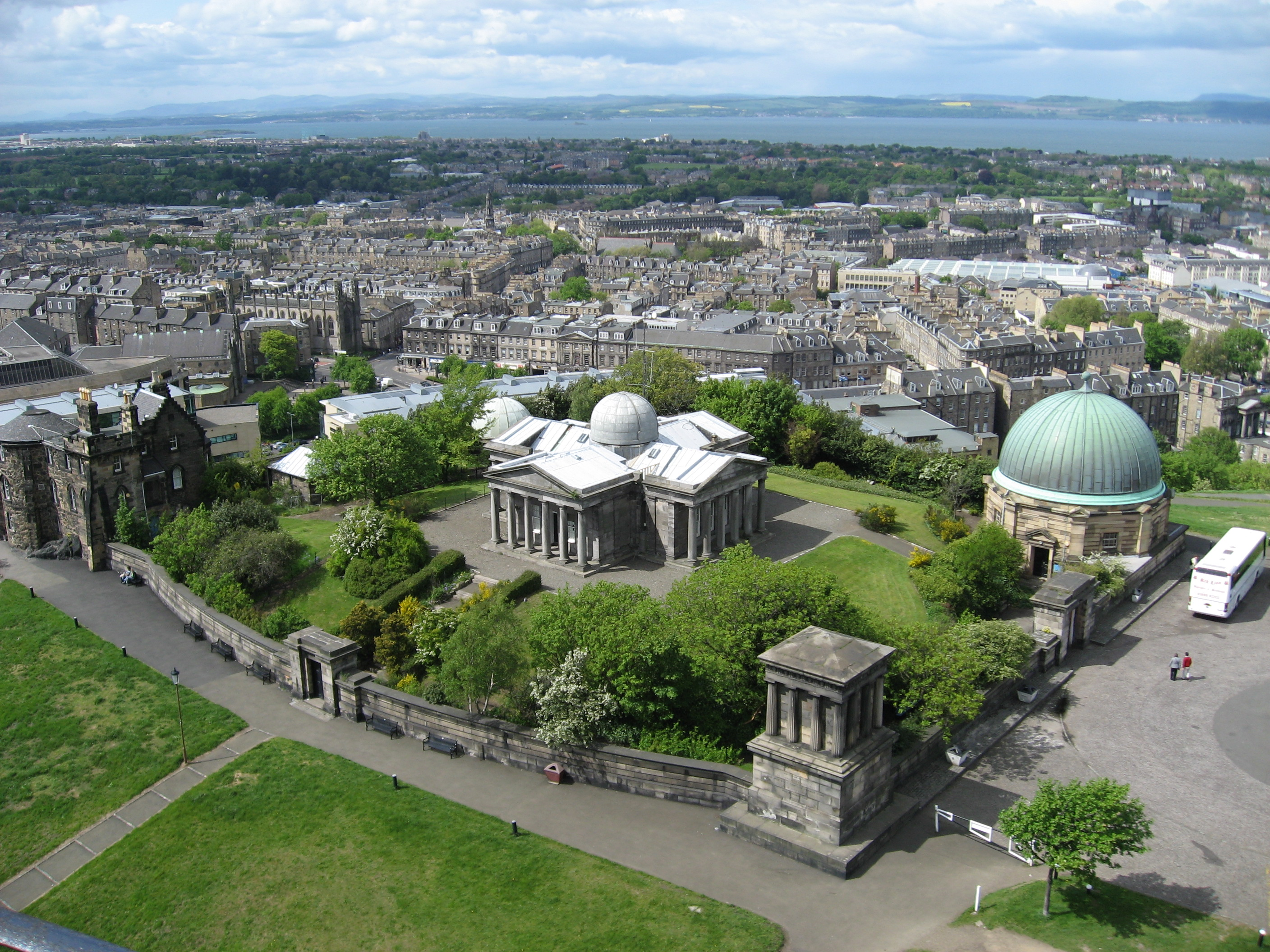 View of Edinburgh Observatory from Nelson's Monument, Calton Hill, Edinburgh, UK. Photo taken by Alan Ford 2006-05-25.